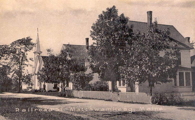 Railroad Street, Mattawamkeag, ME; from a c. 1910 postcard.